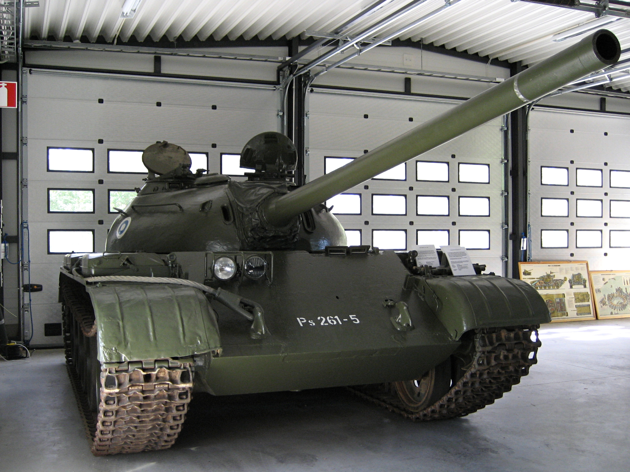 T-54, registered Ps 261-5, Parola Armoured Vehicle Museum's new extension, Hall 2, exhibits some functional pieces of tanks and BTR's as used by the Finnish Armed Forces.